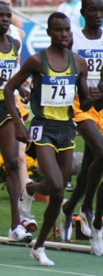 World athletics final Stuttgart 2007 1500m Daniel Kipchirchir Komen